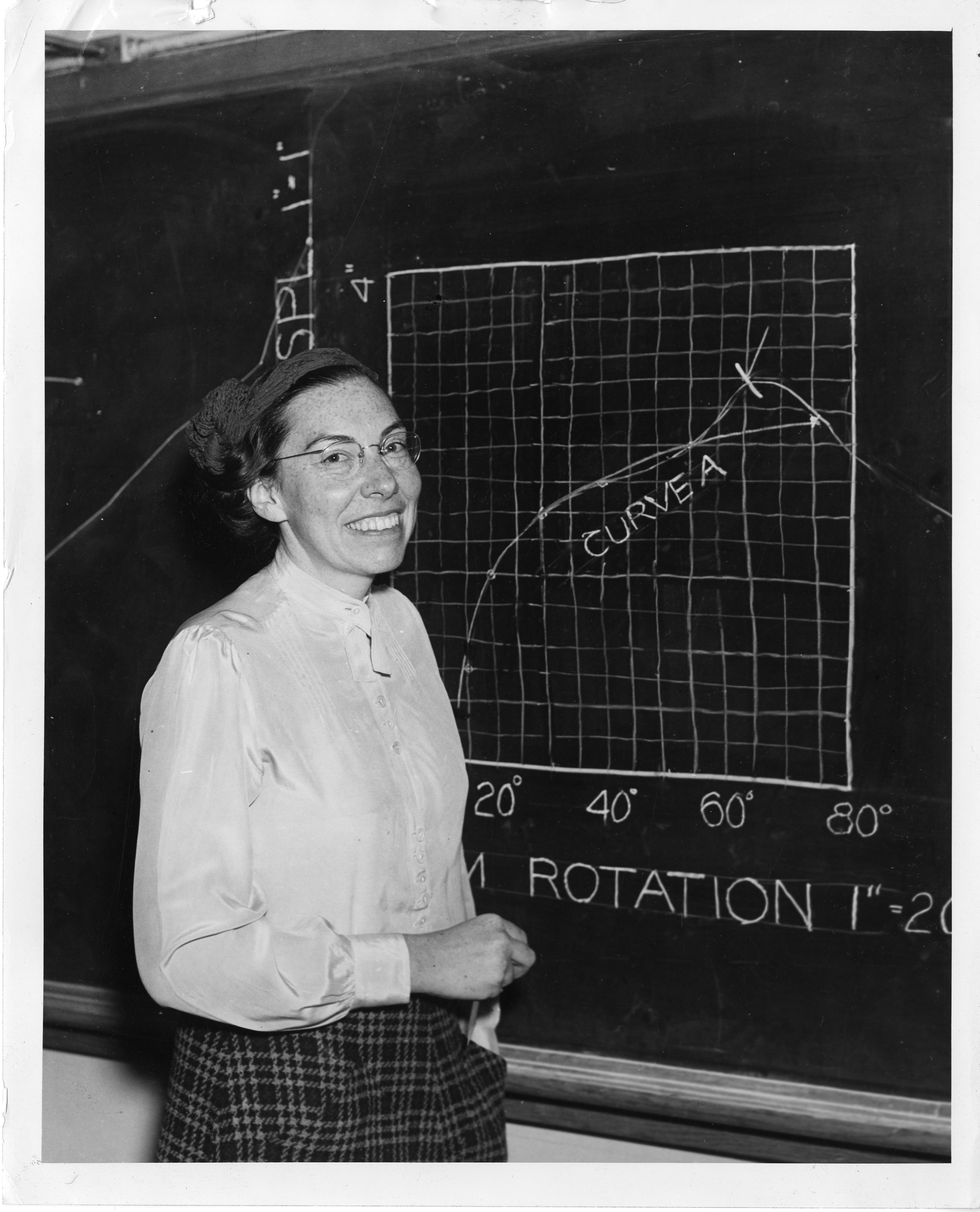 Description: In 1946, when this photograph was taken, Mary Blade was the only woman on the Cooper Union engineering faculty (where she initially taught drawing, mathematics and design) and one of few women on any engineering faculty in the United States. Blade was an avid and accomplished mountain climber. Creator/Photographer: Unidentified photographer Medium: Photographic negative Date: 1946 Persistent URL: Repository: Smithsonian Institution Archives Collection: Accession 90-105: Science Service Records, 1920s – 1970s - Science Service, now the Society for Science & the Public, was a news organization founded in 1921 to promote the dissemination of scientific and technical information. Although initially intended as a news service, Science Service produced an extensive array of news features, radio programs, motion pictures, phonograph records, and demonstration kits and it also engaged in various educational, translation, and research activities. Accession number: SIA2007-0254